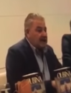 Laureano Oubiña at the presentation of his book titled "Oubiña, toda la verdad" ("Oubiña, the whole truth")